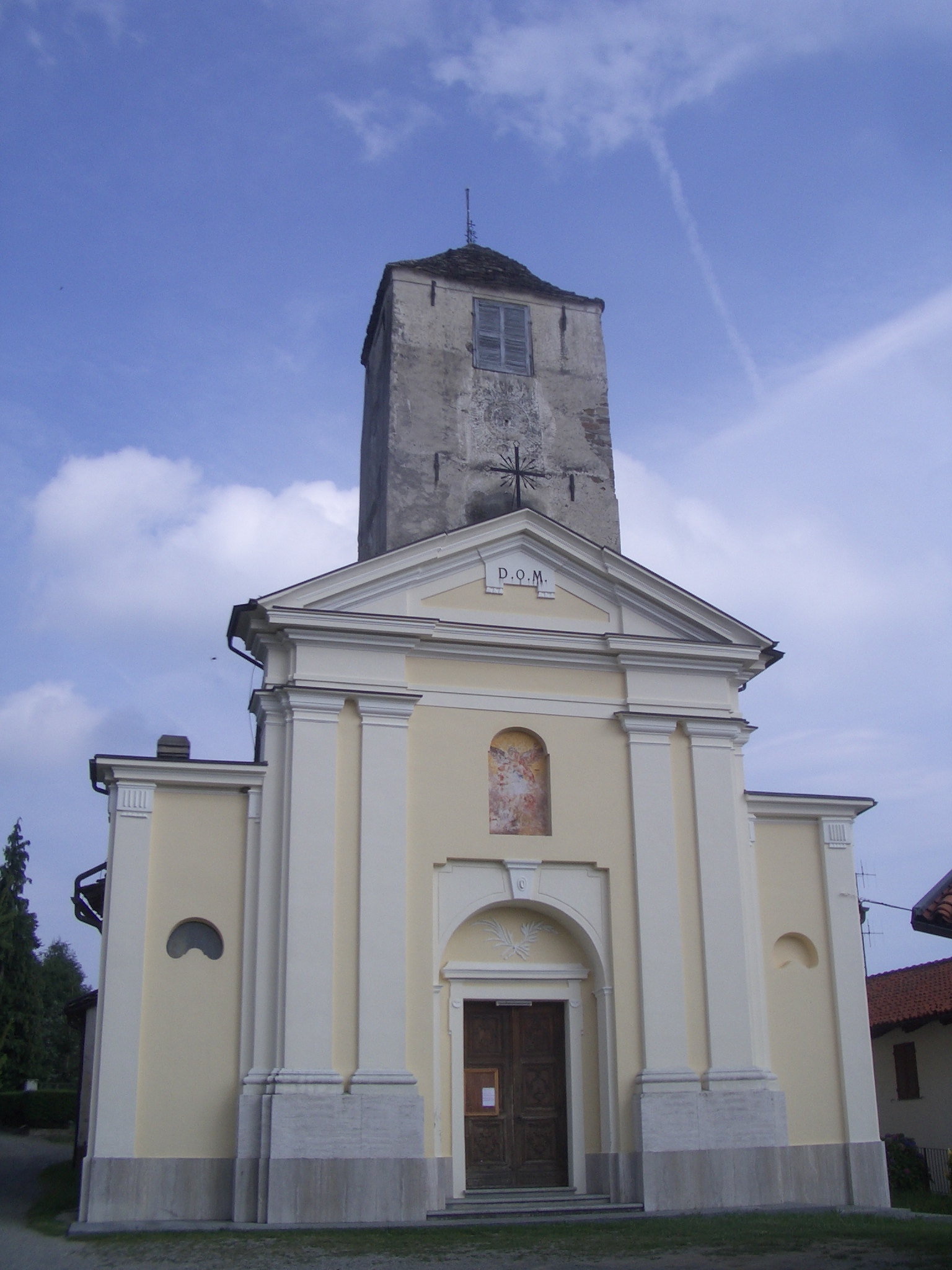 Pecco, Parish Church Romanesque clock tower